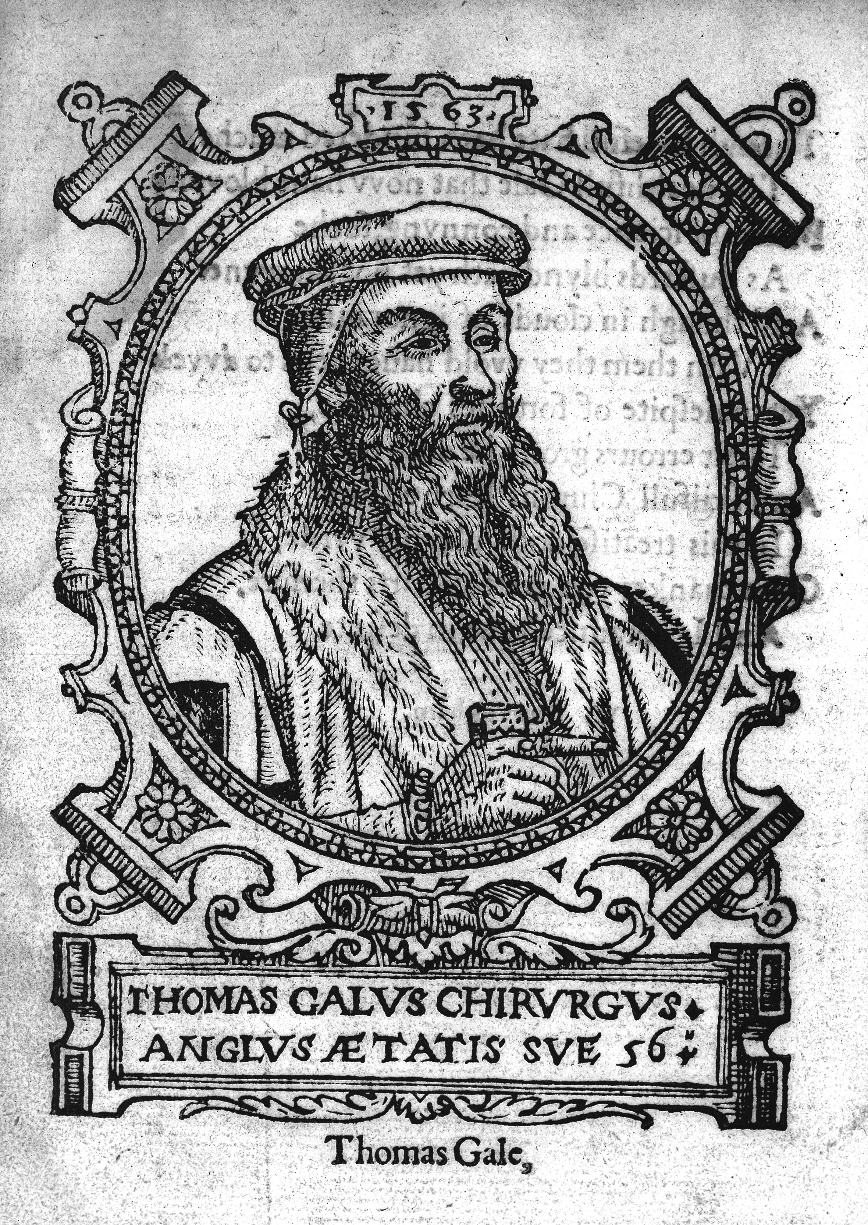 Portrait of Thomas Gale Rare Books Keywords: surgery, 16th century; Thomas Gale; medicine, 16th century